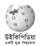 Wikipedia logo 2.0